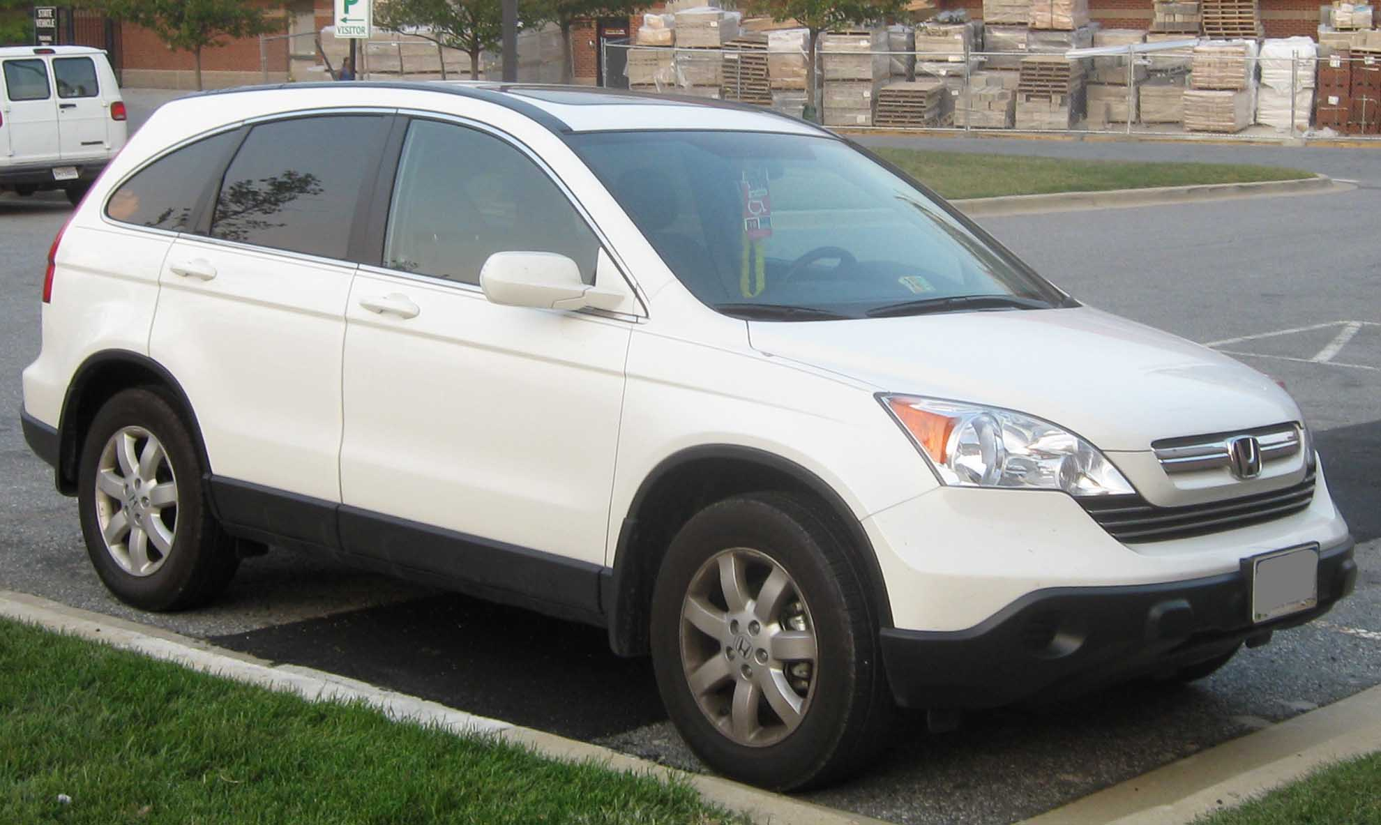 2007-2009 Honda CR-V photographed in College Park, Maryland, USA.